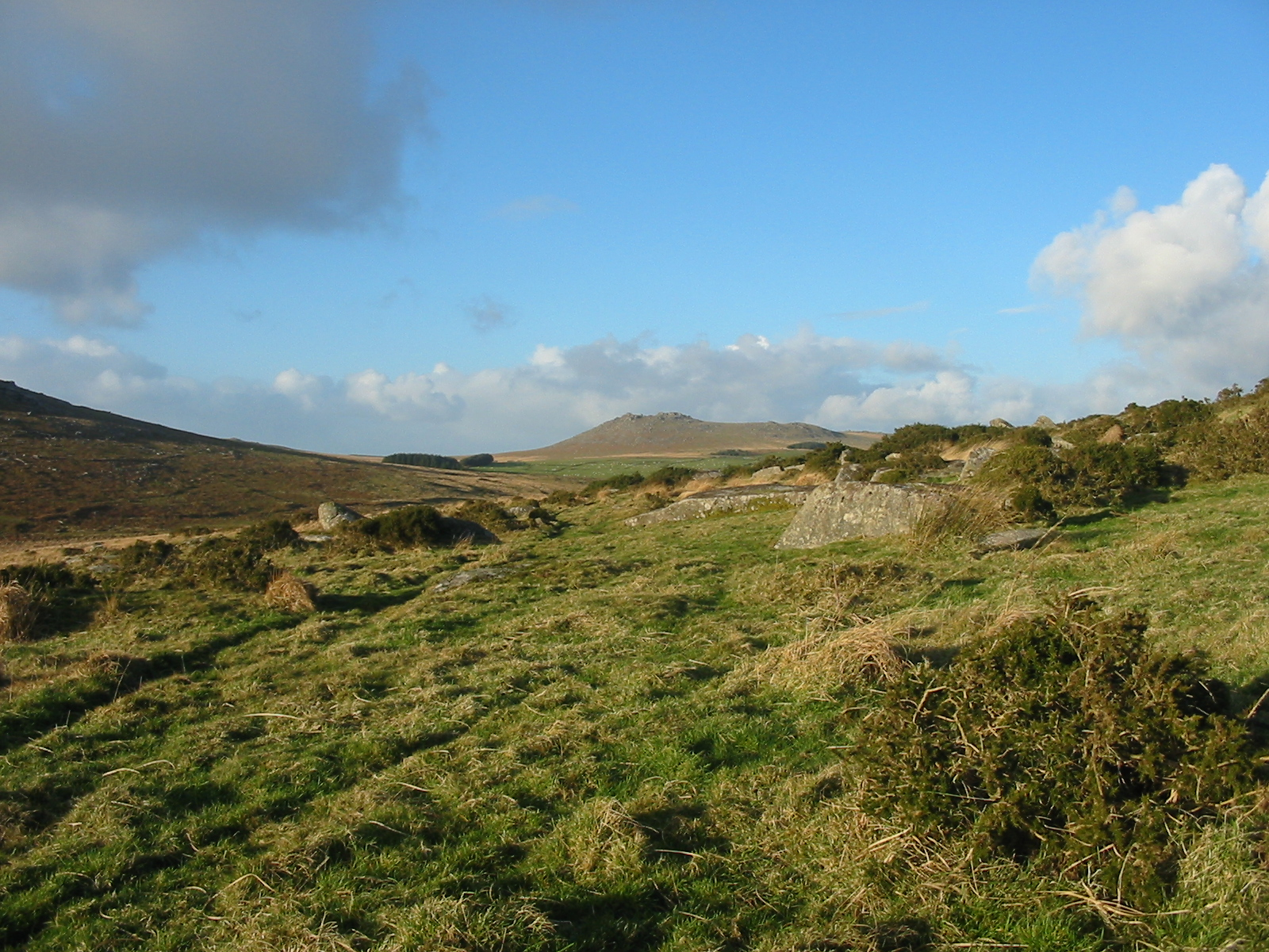 Looking towards Brown Willy, the highest point in Cornwall.